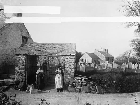 1 negative : glass, dry plate, b&w ; 16.5 x 21.5 cm.